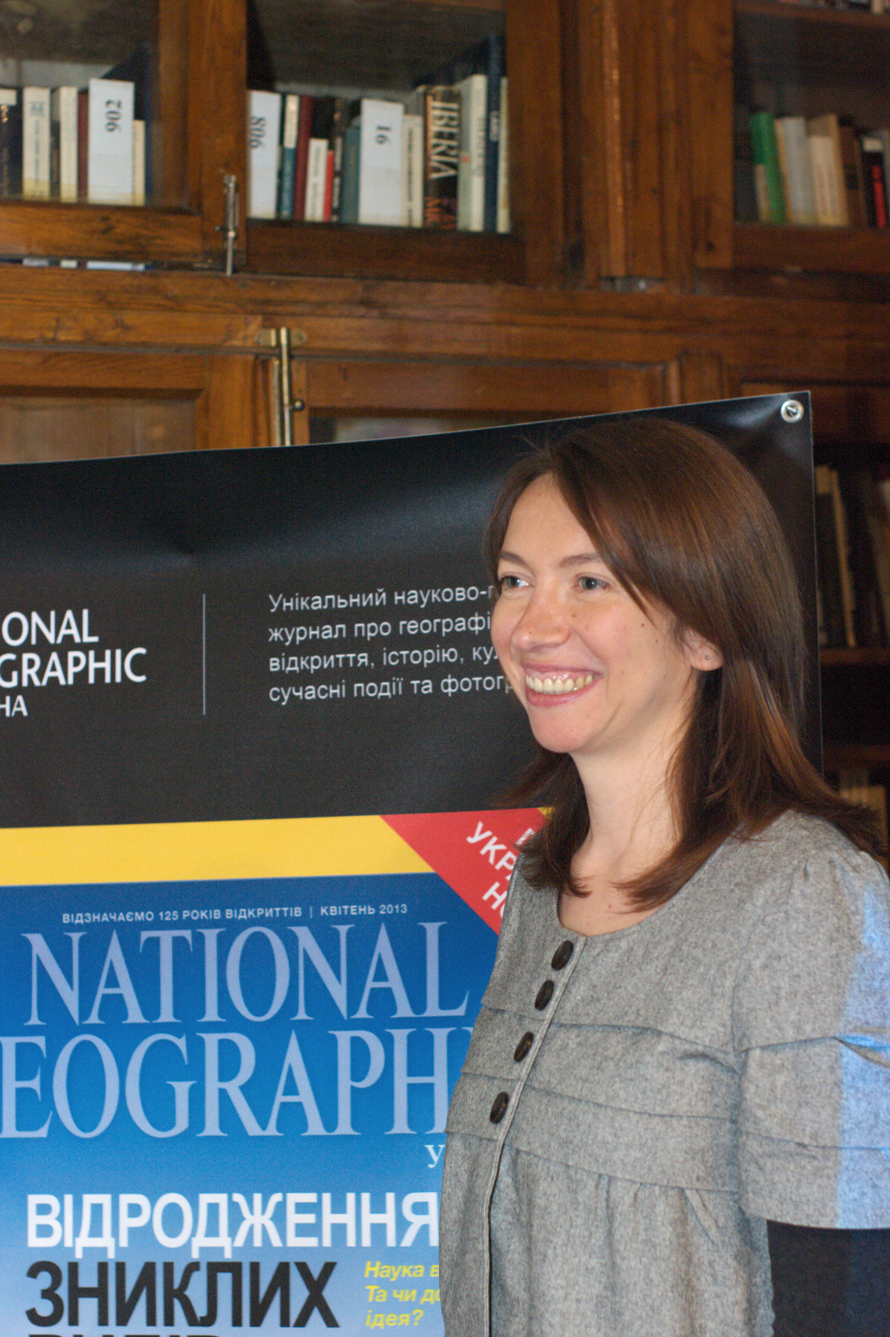 First Ukrainian National Geographic magazine presentation